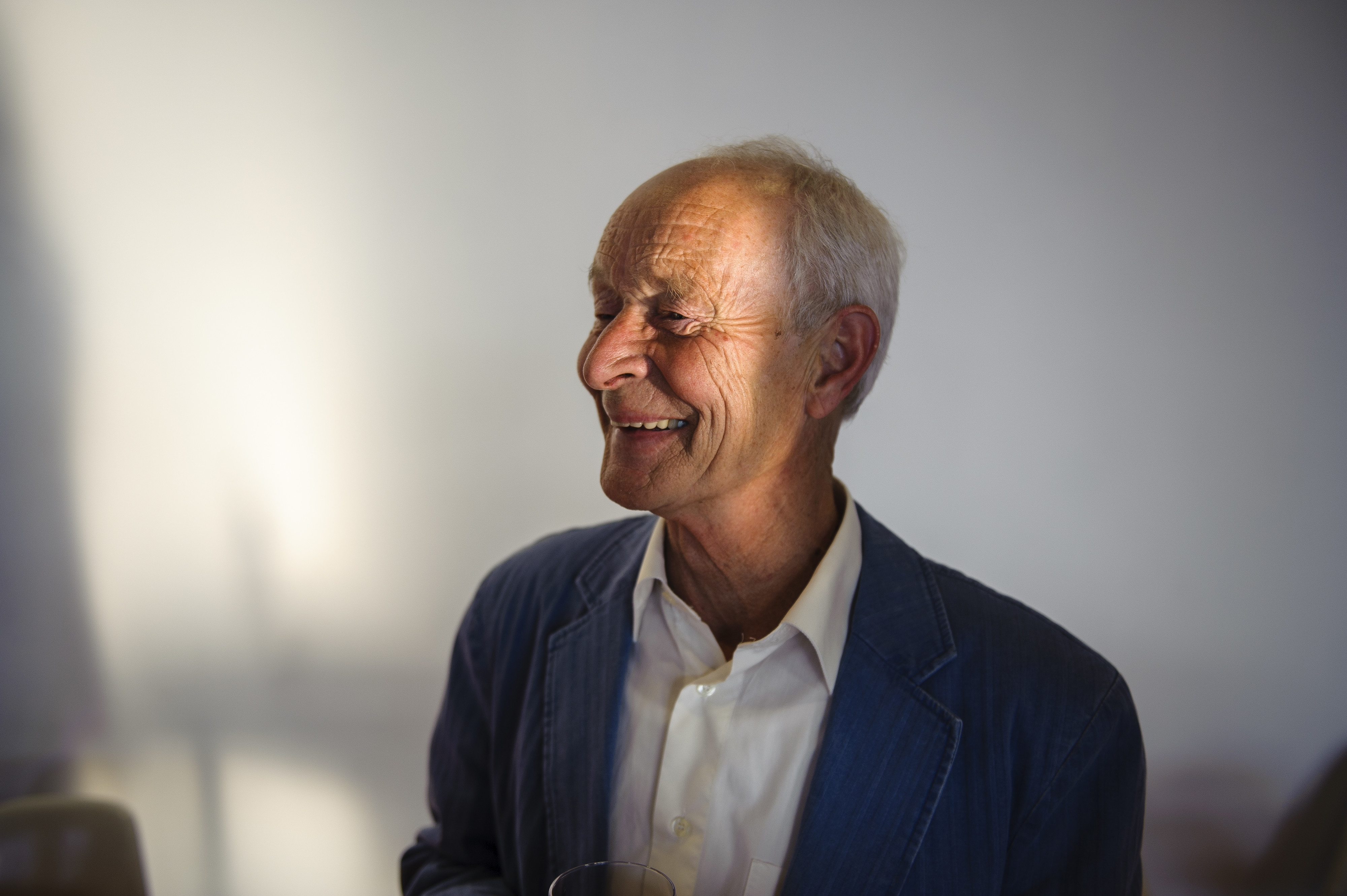 Dutch author Guus Kuijer gives a lecture at The House of Culture (Stockholm) in conjunction with the 2012 Astrid Lindgren Memorial Award (ALMA).